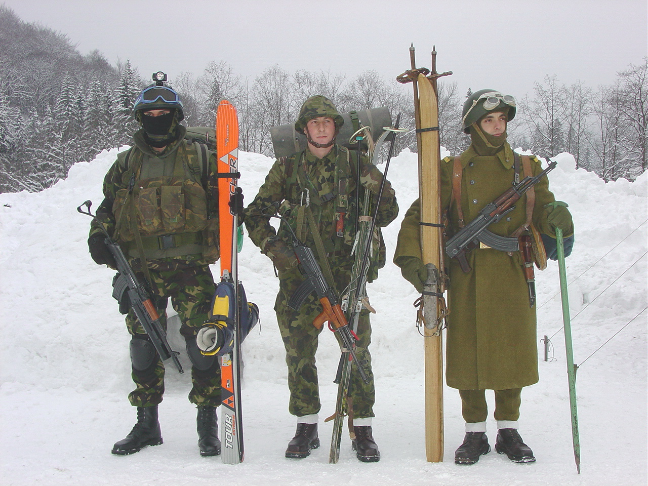 The equipment of the Vânători de Munte (from left to right): 2010, 2000 and 1990.